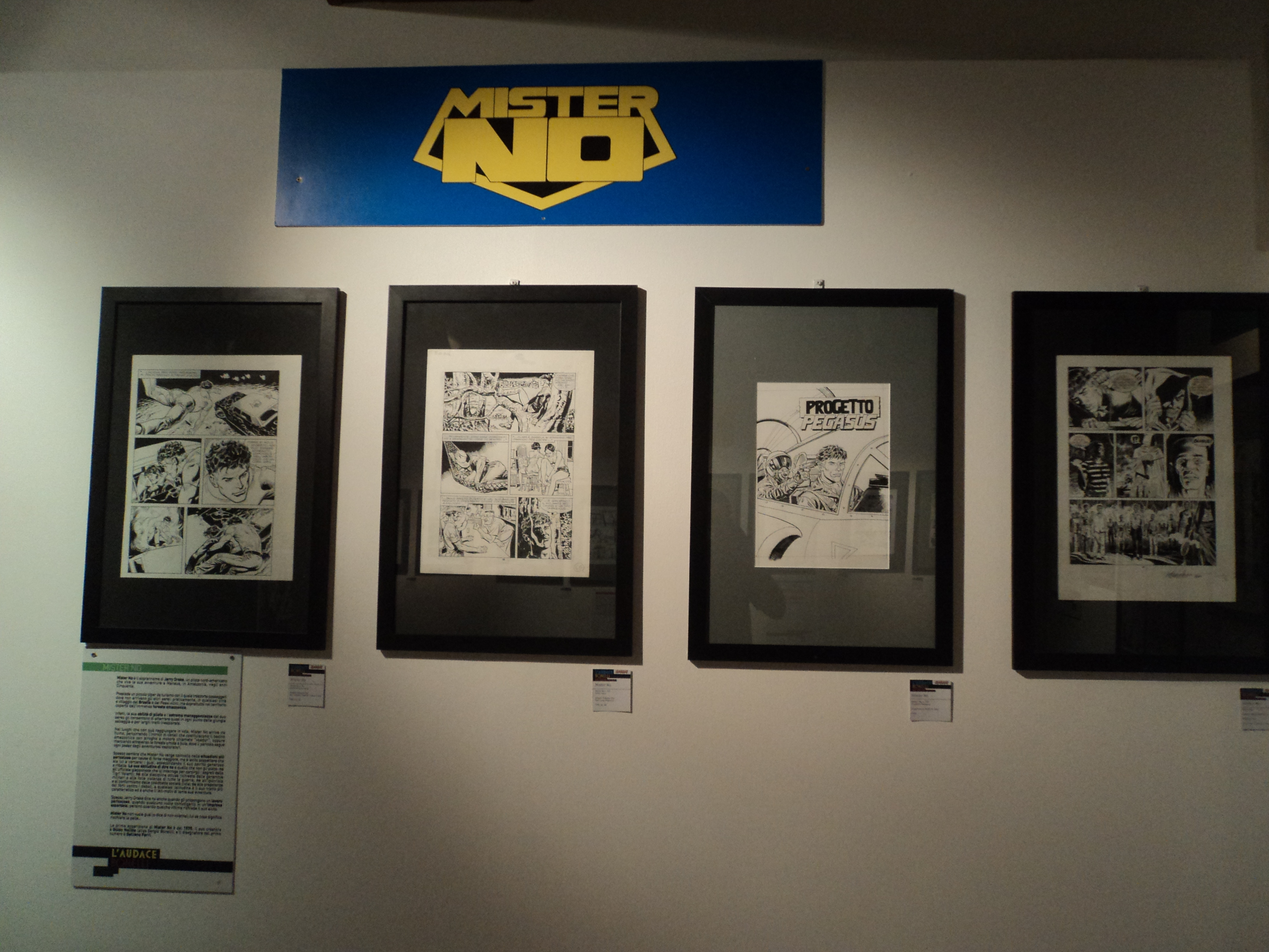 Show L'Audace Bonelli in Rome.